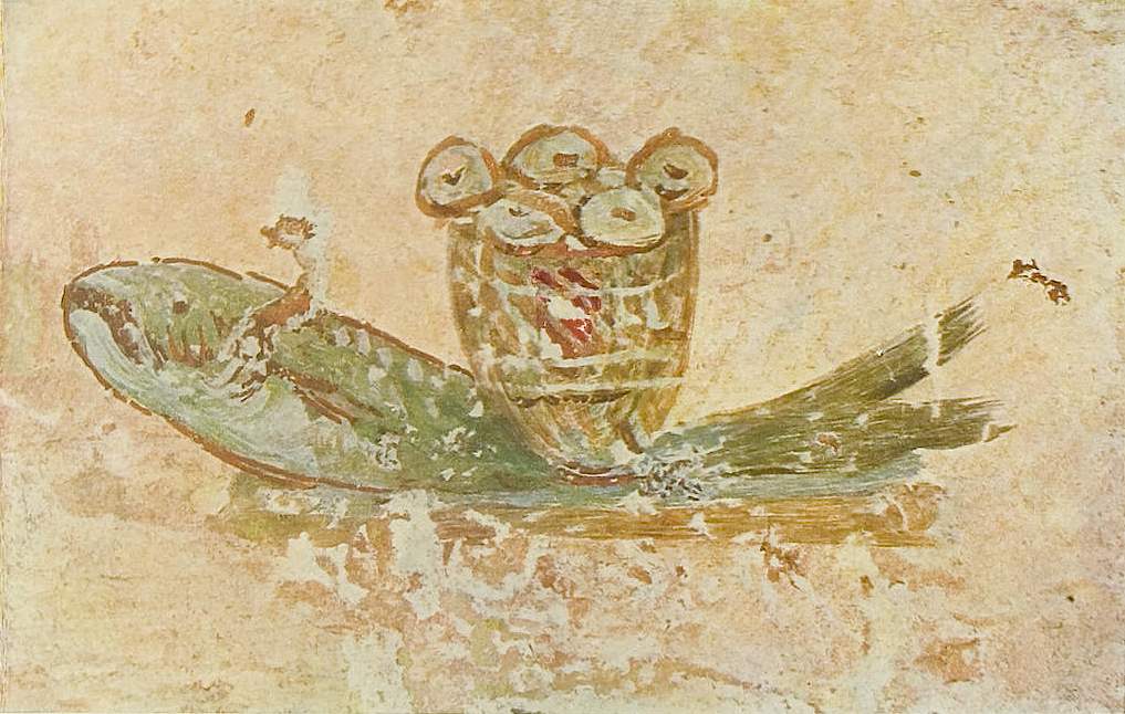 Eucharistic bread and fish. Fresco in Catacomb of Callistus (Rome)